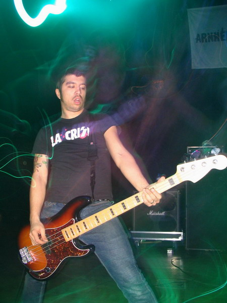 Nate Newton of Converge onstage